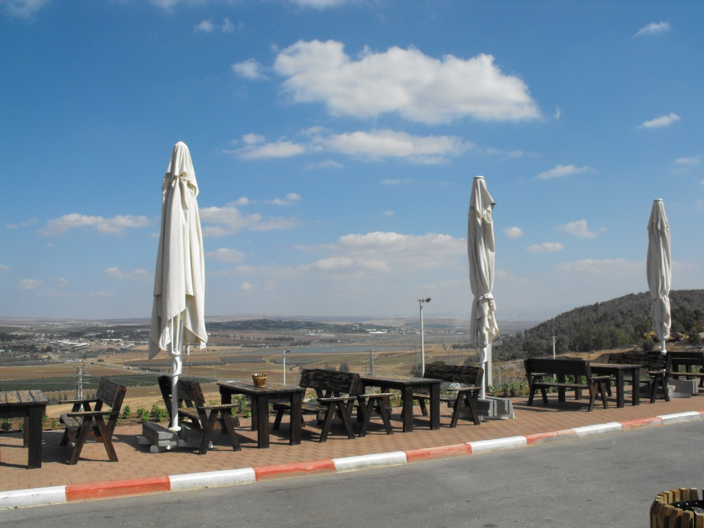 Tourism in Israel